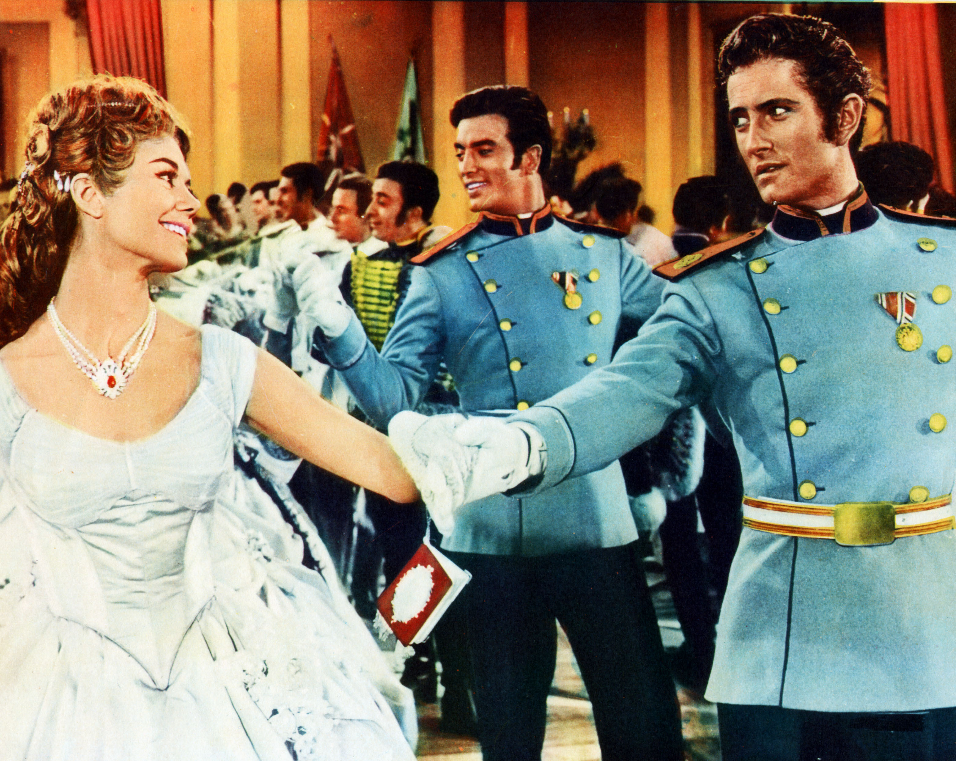 screenshot from the film I Cosacchi (1960)